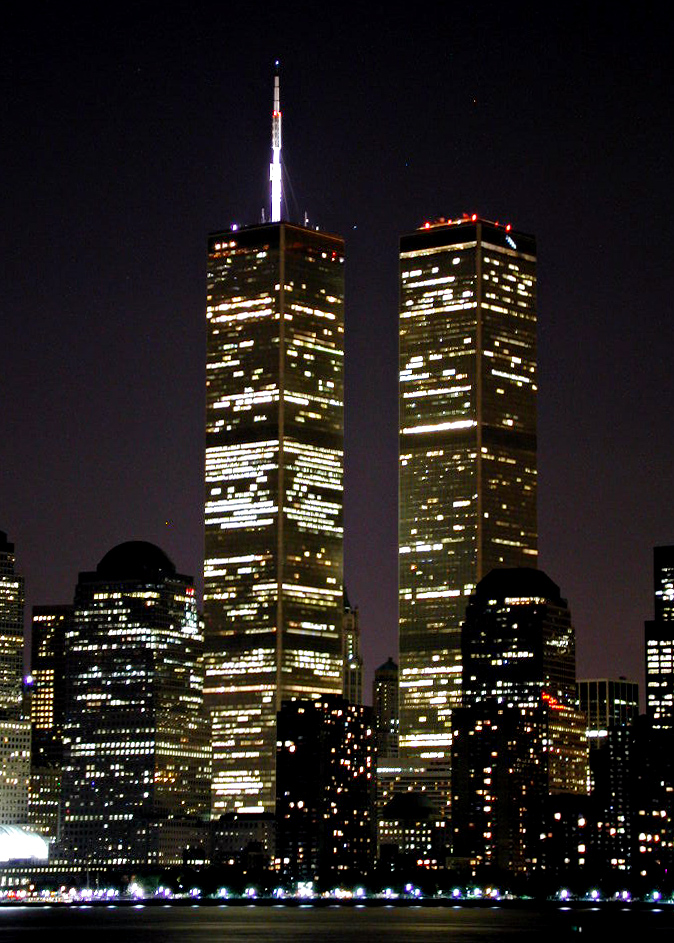 The twin towers of the World Trade Center (New York) at night in July 2001.